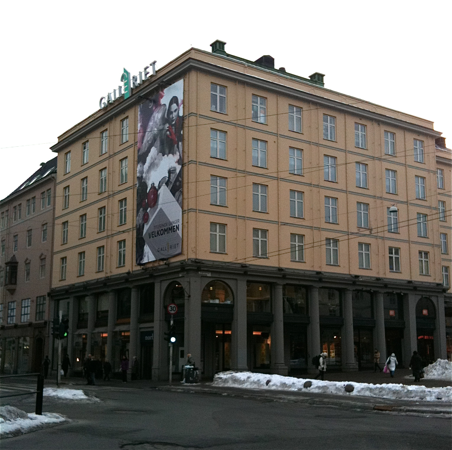 Galleriet a shopping mall in Bergen, Norway